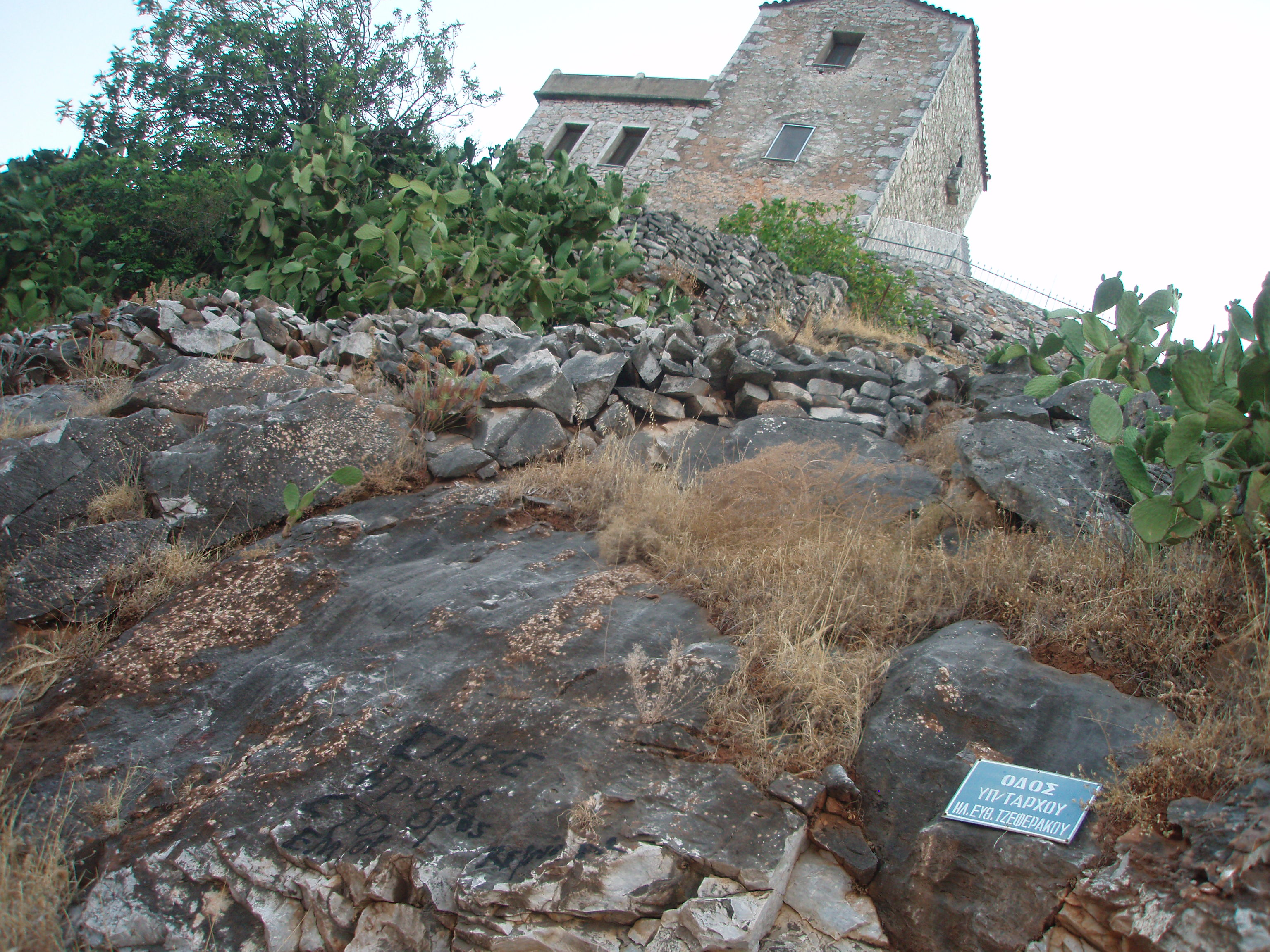 the typical landscape of Mani, region of south Peloponnisos